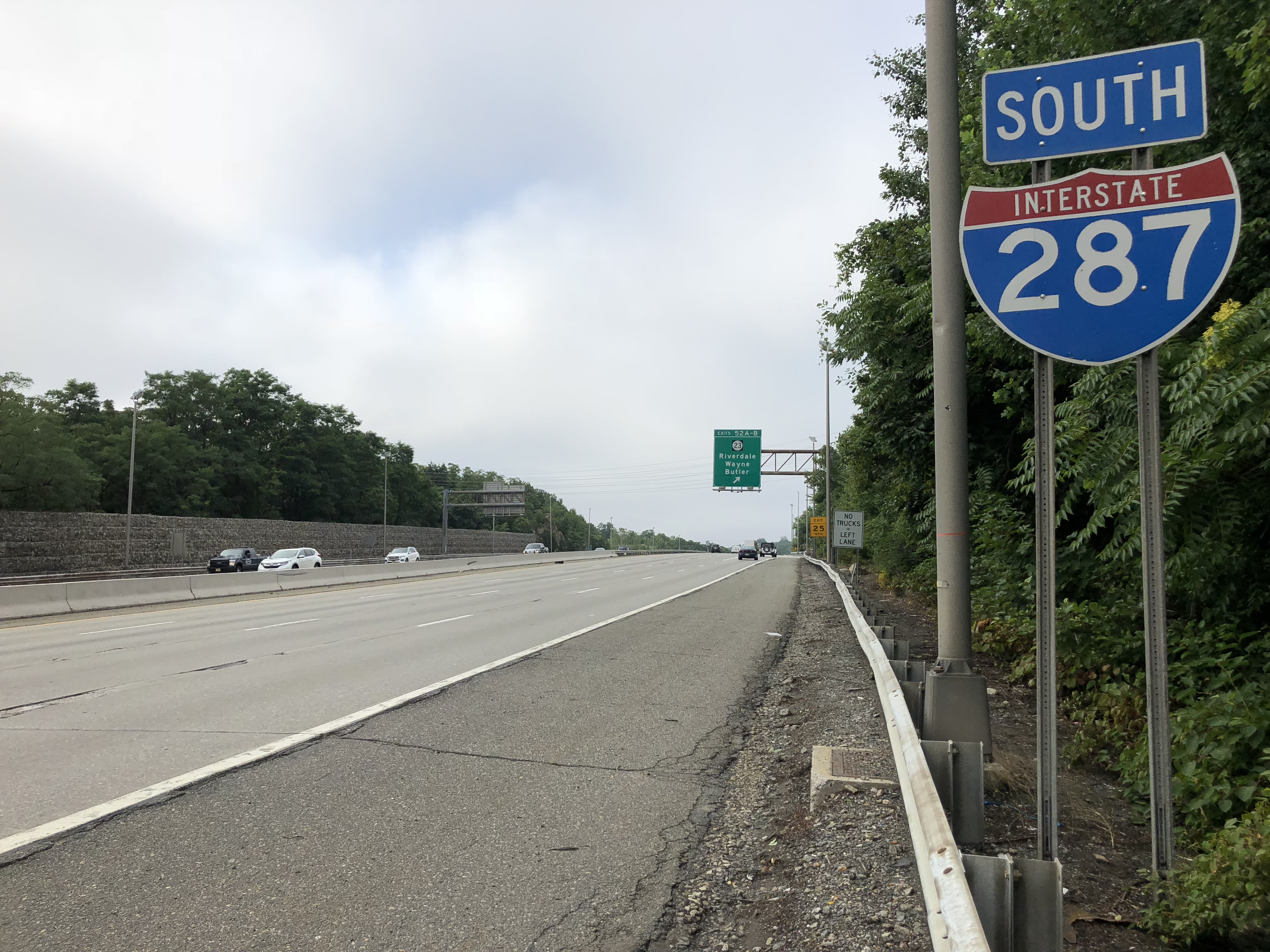 View south along Interstate 287 between Exit 53 and Exit 52 in Riverdale, Morris County, New Jersey